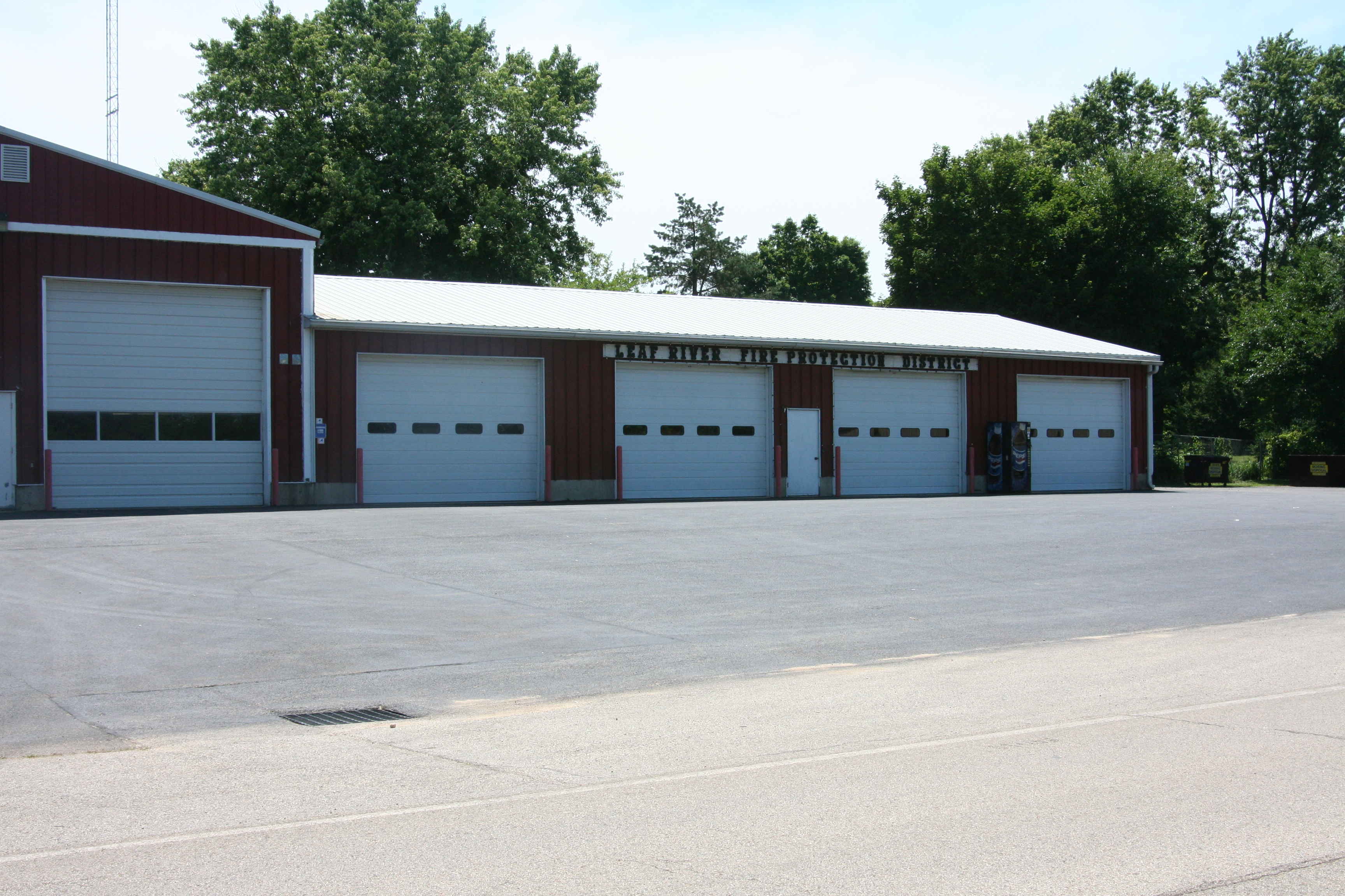 Picture of the Leaf River Fire Protection District in Illinois, USA.